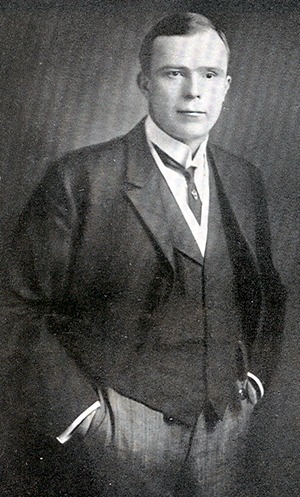 Morgan Shuster, Late general-tresurer of Persia